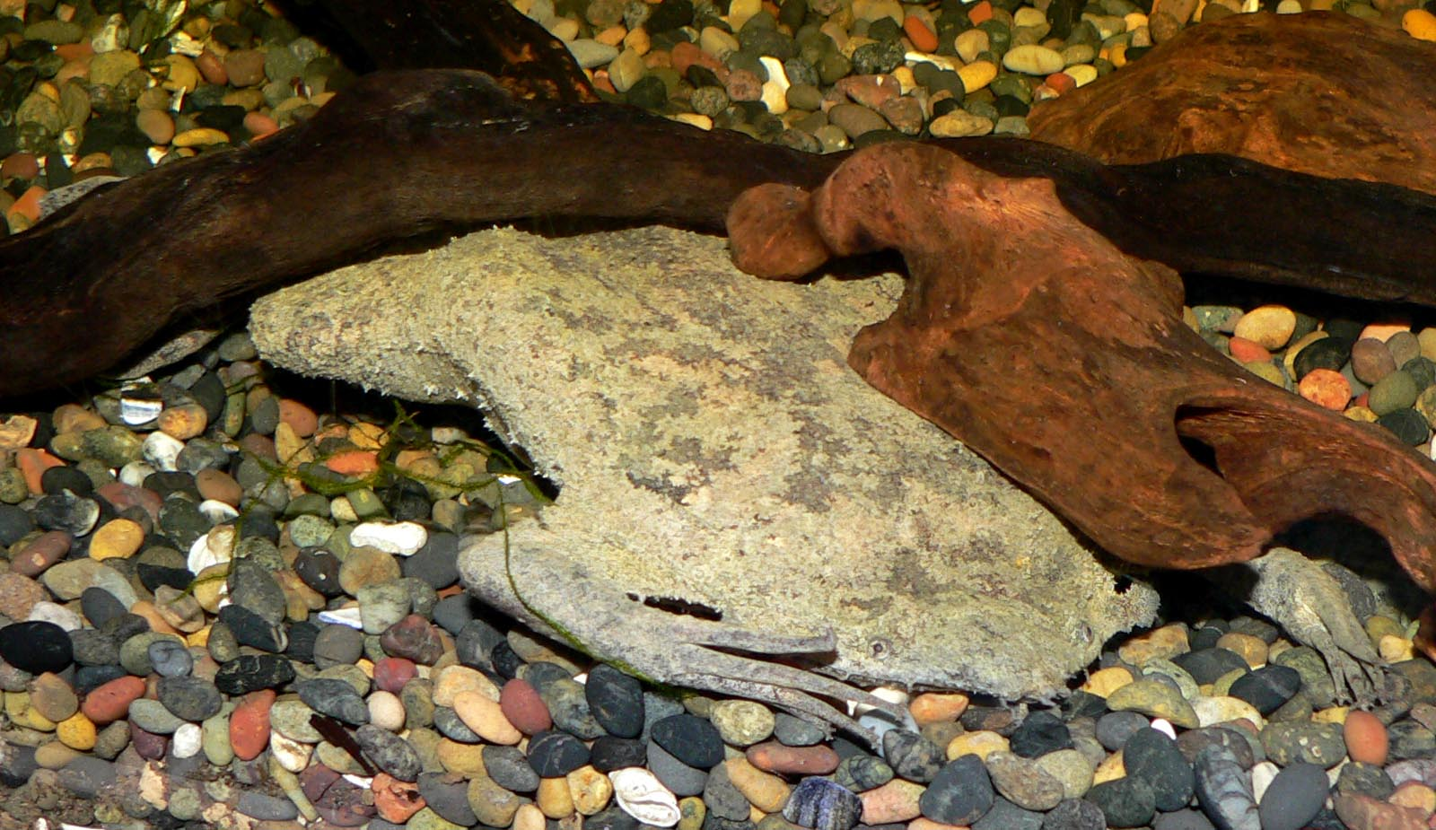 Photo of Pipa pipa (Surinam toad) at the Steinhart Aquarium in San Francisco